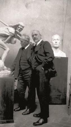 Niels Hansen Jacobsen (left) and Axel Hou (right) standing next to Hansen Jacobsen's sculpture Døden og Moderen in the Sculpture Gallery of Vejen Art Museum.